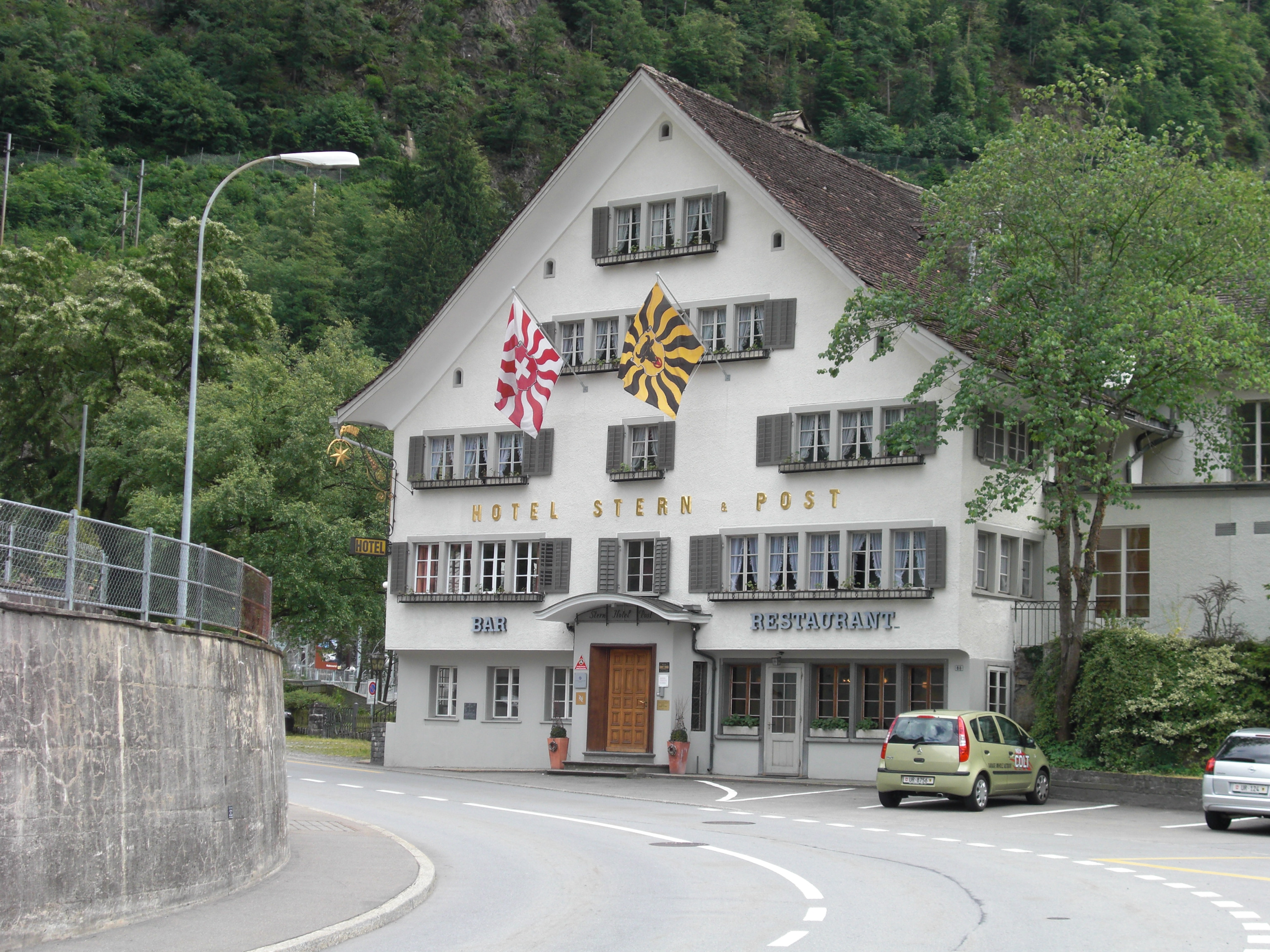 Northern front view of the Hotel Stern und Post, Amsteg, Switzerland.